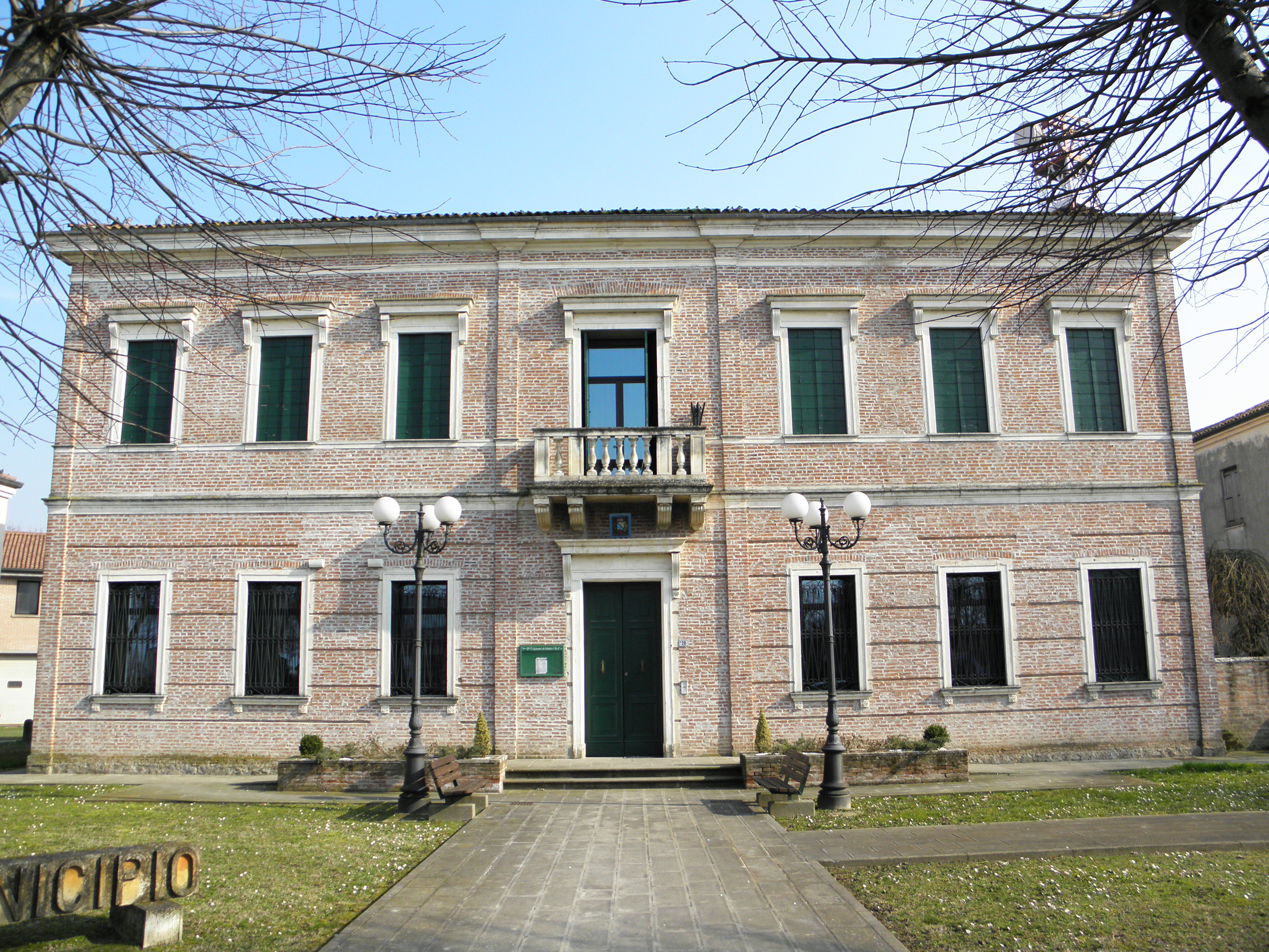 Ca' Morosini, Town hall of Sant'Urbano municipality.